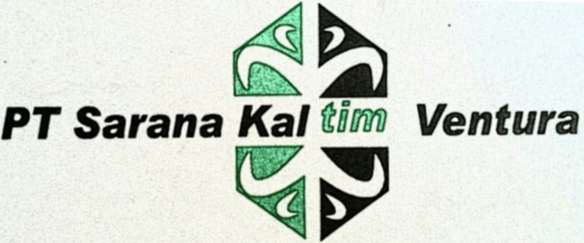 PT. Sarana Kaltim Ventura